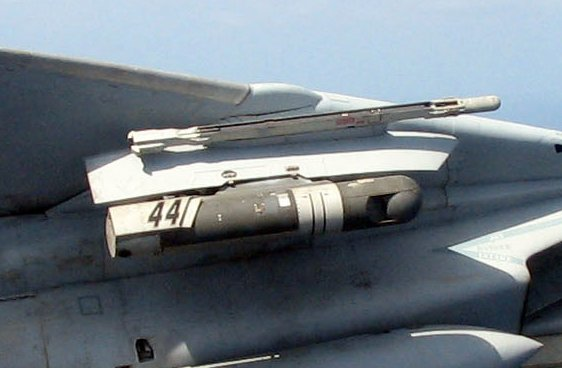 This a cropped version focusing on the LANTIRN pod. A US Navy (USN) F-14D Tomcat, Fighter Squadron 213 (VF-213), Blacklions, Naval Air Station (NAS) Oceana, Virginia (VA), banks with its tailhook lowered in preparation for landing after conducting a mission over the Mediterranean Sea. The Tomcat is equipped with an AAQ-14 LANTIRN (Low-Altitude Navigation and Targeting InfraRed for Night) pod on the pylon. The VF-213 is assigned to Carrier Air Wing 8 (CVW-8), are currently embarked aboard the Nimitz Class Aircraft Carrier USS THEODORE ROOSEVELT (CVN 71).